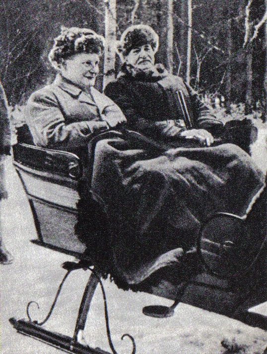 Hermann Göring and Ignacy Mościcki hunting together in 1937. Photo published by Światowid.